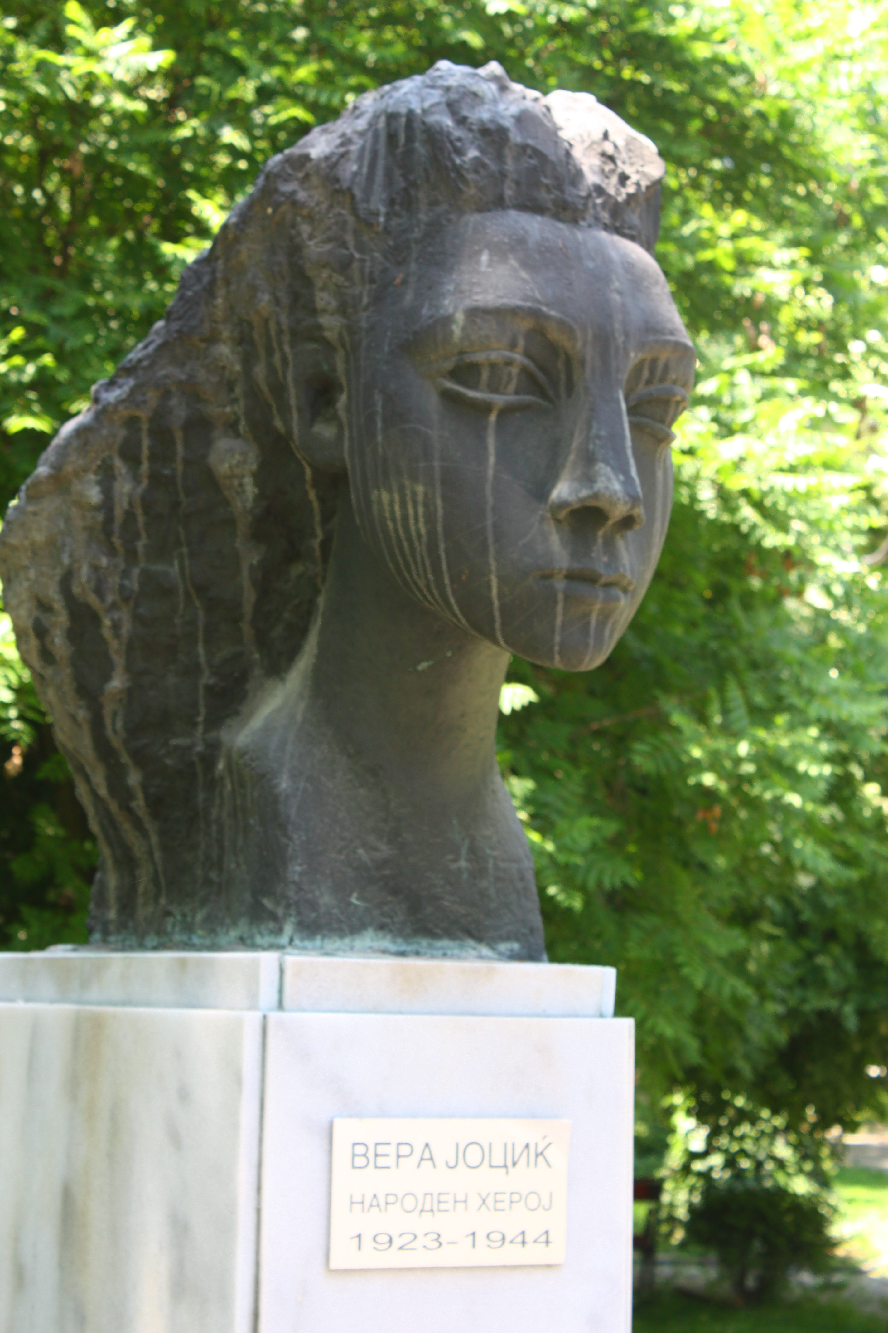 Vera Jociḱ Monument in Skopje, Macedonia